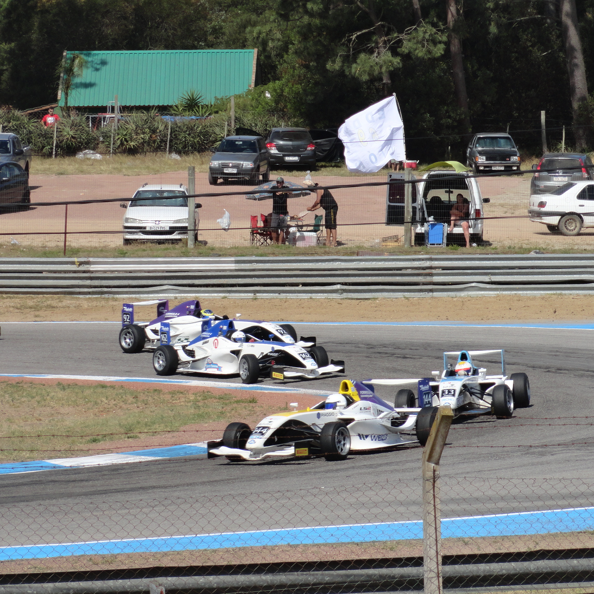 South American Formula 4 Championship main race at the 2016 Gran Premio Coronación AUVO at the Autódromo Víctor Borrat Fabini de El Pinar